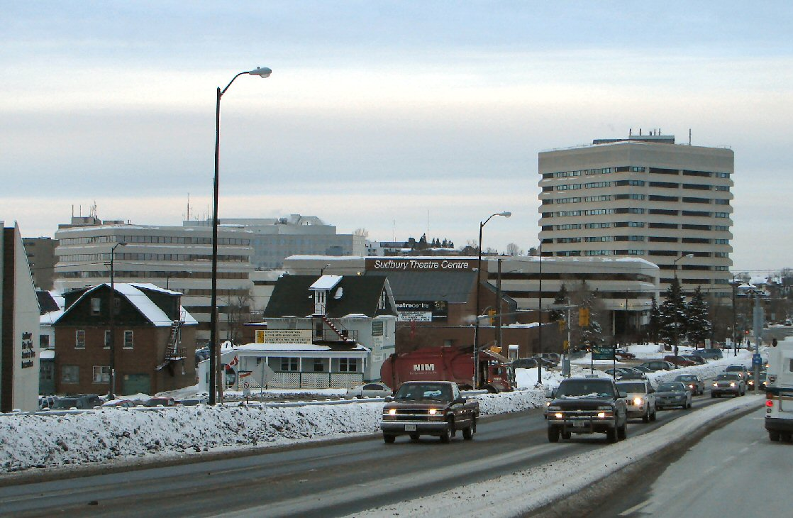 Downtown skyline of Sudbury, Ontario, Canada